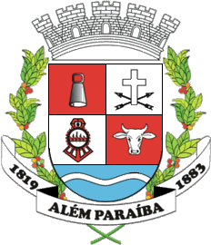 Coat of Arms of Além Paraíba, a municipality of the Brazilian state of Minas Gerais